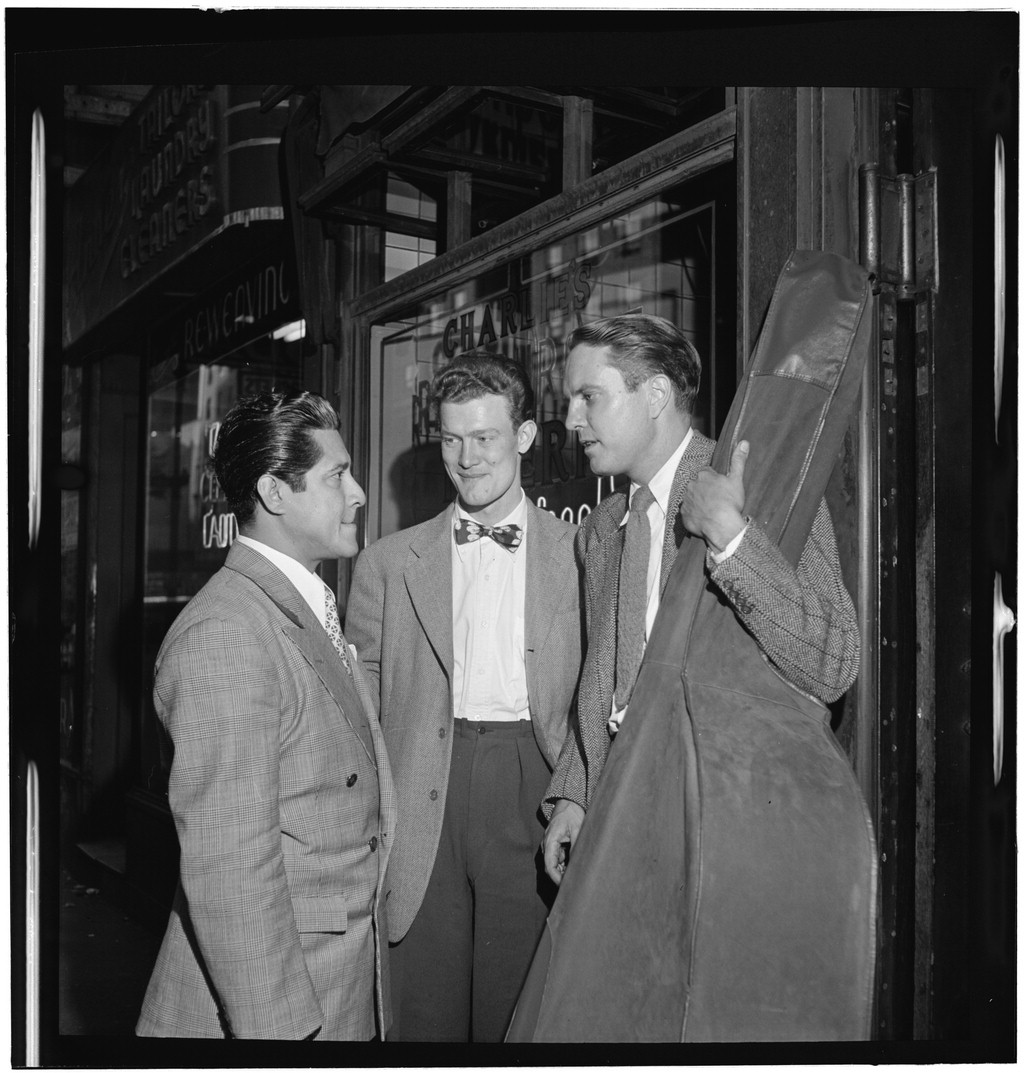 Gottlieb, William P., 1917-, photographer. [Portrait of Bob Haggart, Charlie's Tavern, New York, N.Y., between 1946 and 1948] 1 negative : b&w ; 2 1/4 x 2 1/4 in. Notes: Gottlieb Collection Assignment No. 542 Purchase William P. Gottlieb Forms part of: William P. Gottlieb Collection (Library of Congress). Subjects: Haggart, Bob Jazz musicians--1940-1950. Double bassists--1940-1950. Charlie's Tavern Format: Portrait photographs--1940-1950. Group portraits--1940-1950. Film negatives--1940-1950. Rights Info: Mr. Gottlieb has dedicated these works to the public domain, but rights of privacy and publicity may apply. Repository: (negative) Library of Congress, Prints & Photographs Division, Washington D.C. 20540 USA, Part Of: William P. Gottlieb Collection (DLC) 99-401005 General information about the Gottlieb Collection is available at Persistent URL: Call Number: LC-GLB23- 1236 This work is from the William P. Gottlieb collection at the Library of Congress. Rights and restrictions.In accordance with the wishes of William Gottlieb, the photographs in this collection entered into the public domain on February 16, 2010.